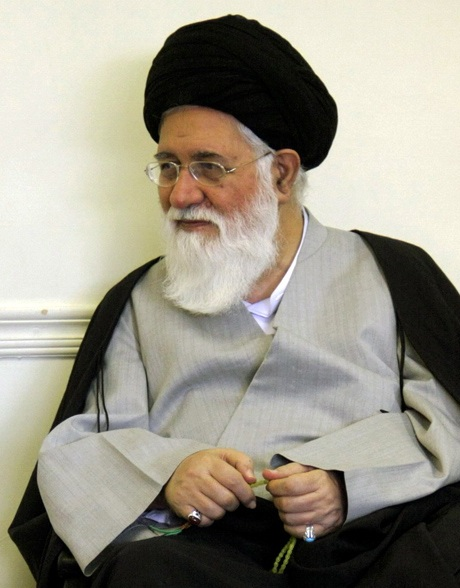 Ahmad Alamolhoda